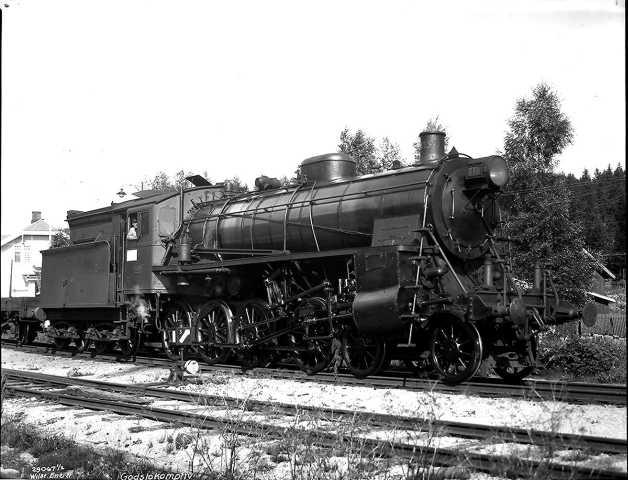 Norges Statsbaner type 26c steam locomotive at Gjøvikbanen, Norway.